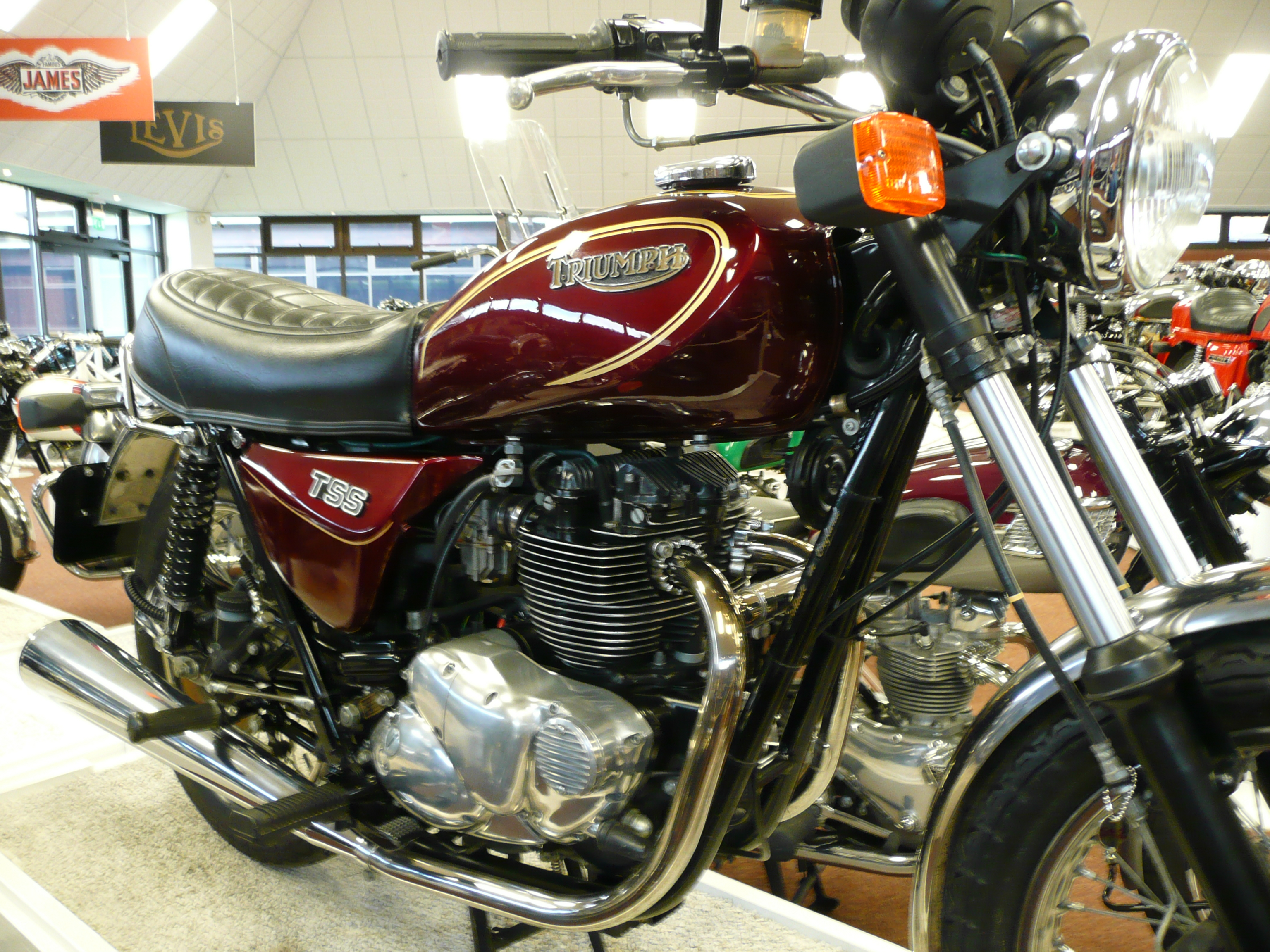 1983 Triumph T140W TSS motorcycle at National Motorcycle Museum